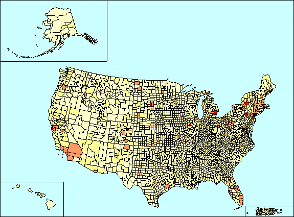 Map generated by Stevey7788